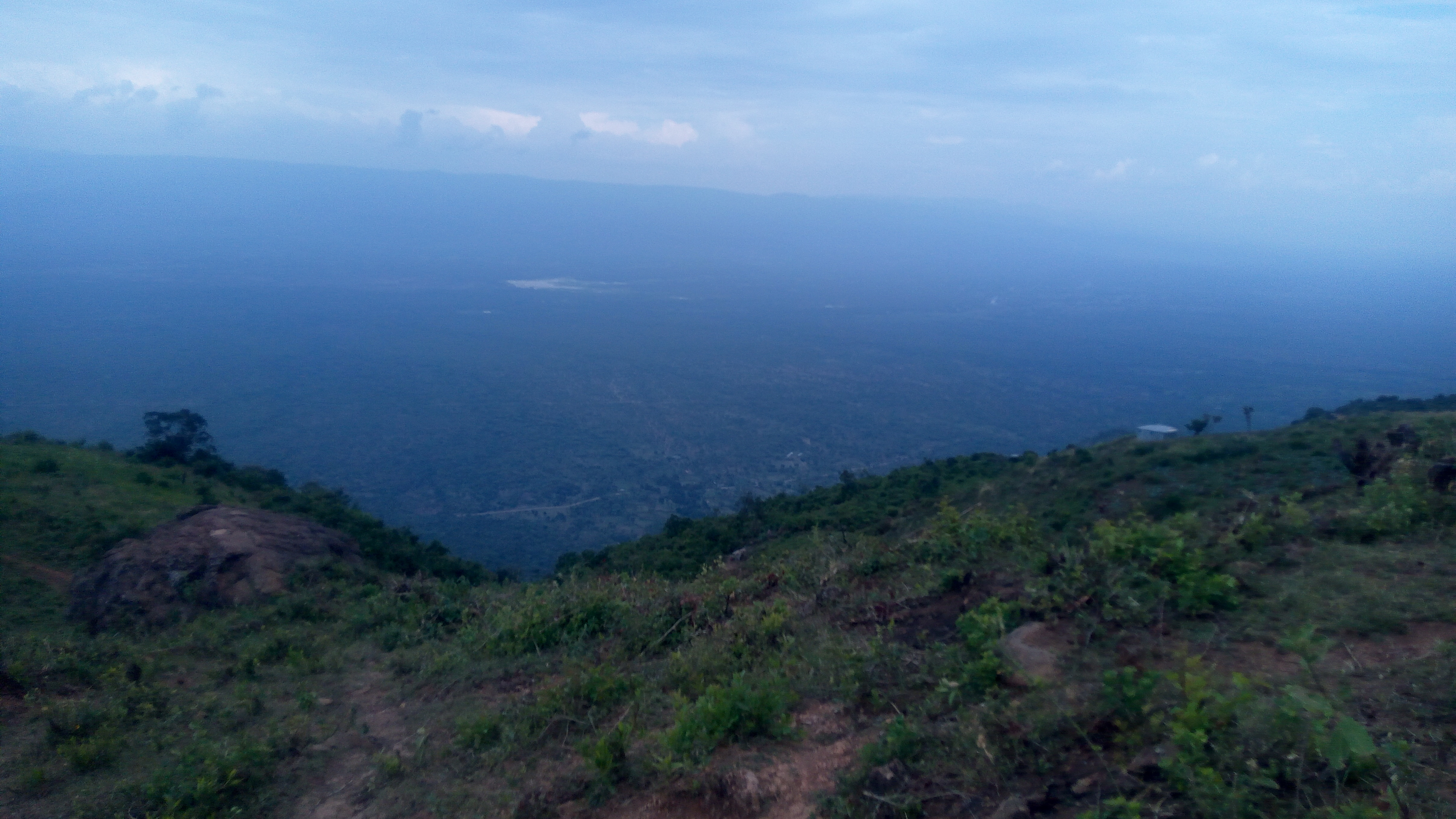 Kerio valley and tugen hills from Anin, lake Kamnarok also visible